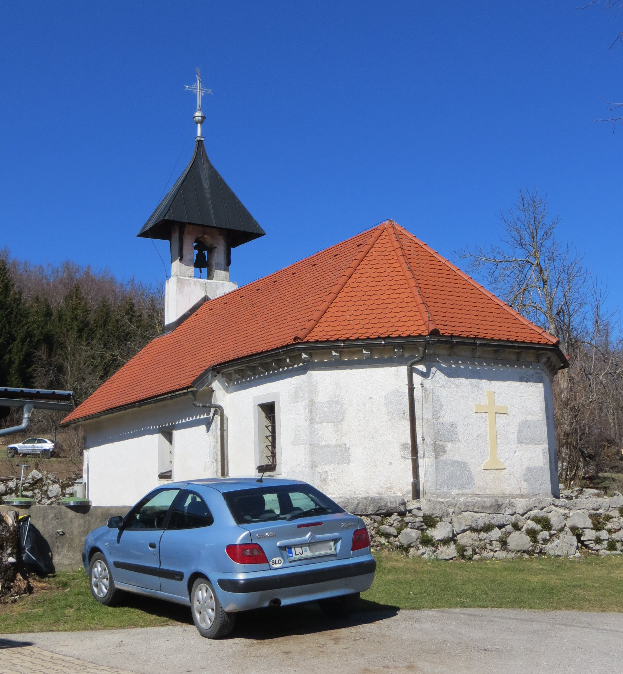 Saint Anne's Church in Sveta Ana pri Ložu, Municipality of Loška Dolina, Slovenia